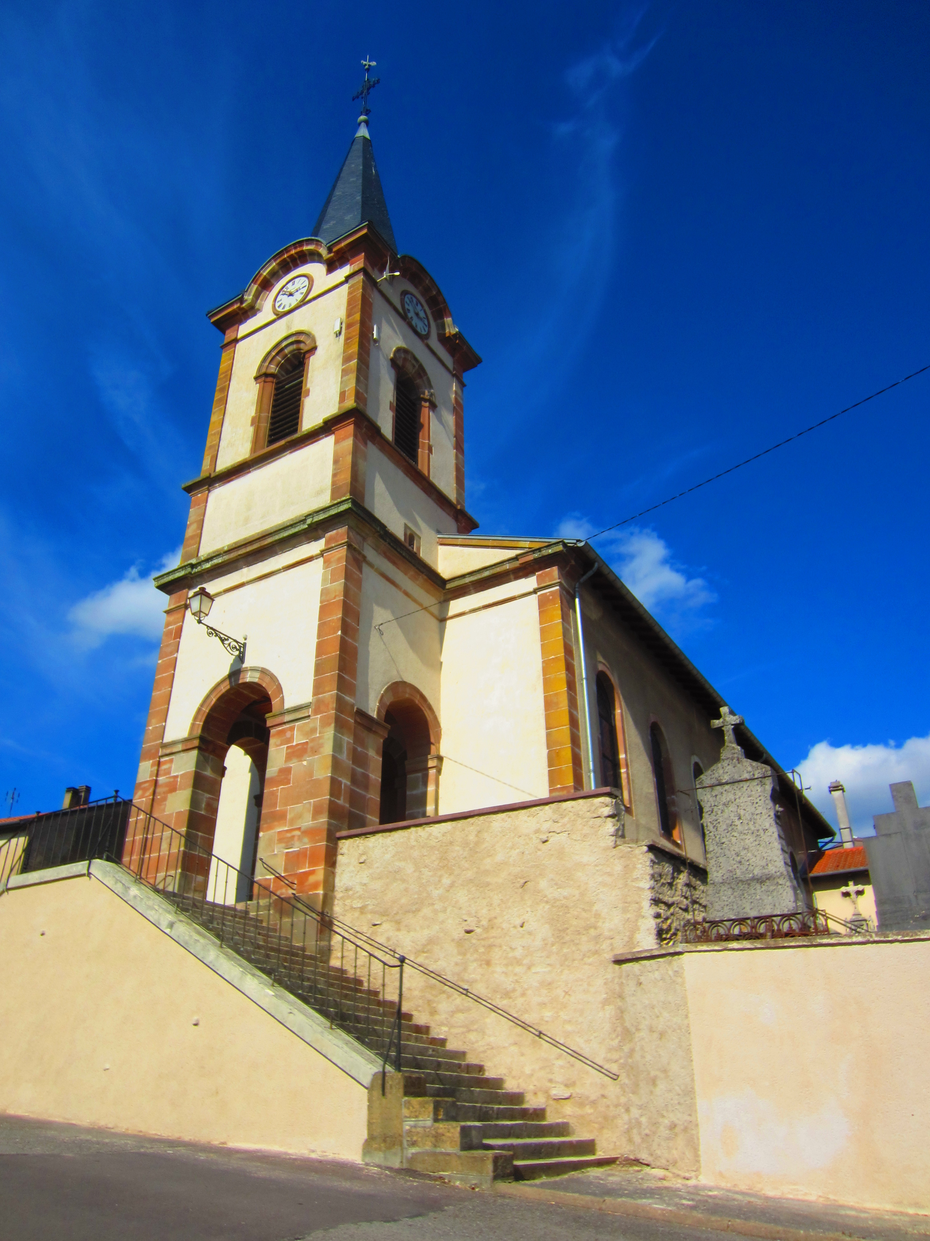 Anzeling church